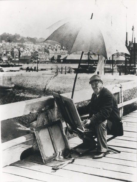 Eugène Boudin at Deauville-Trouville